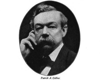 Mayors of Boston: An Illustrated Epitome of who the Mayors Have Been and What they Have Done, Boston, MA: State Street Trust Company, 1914